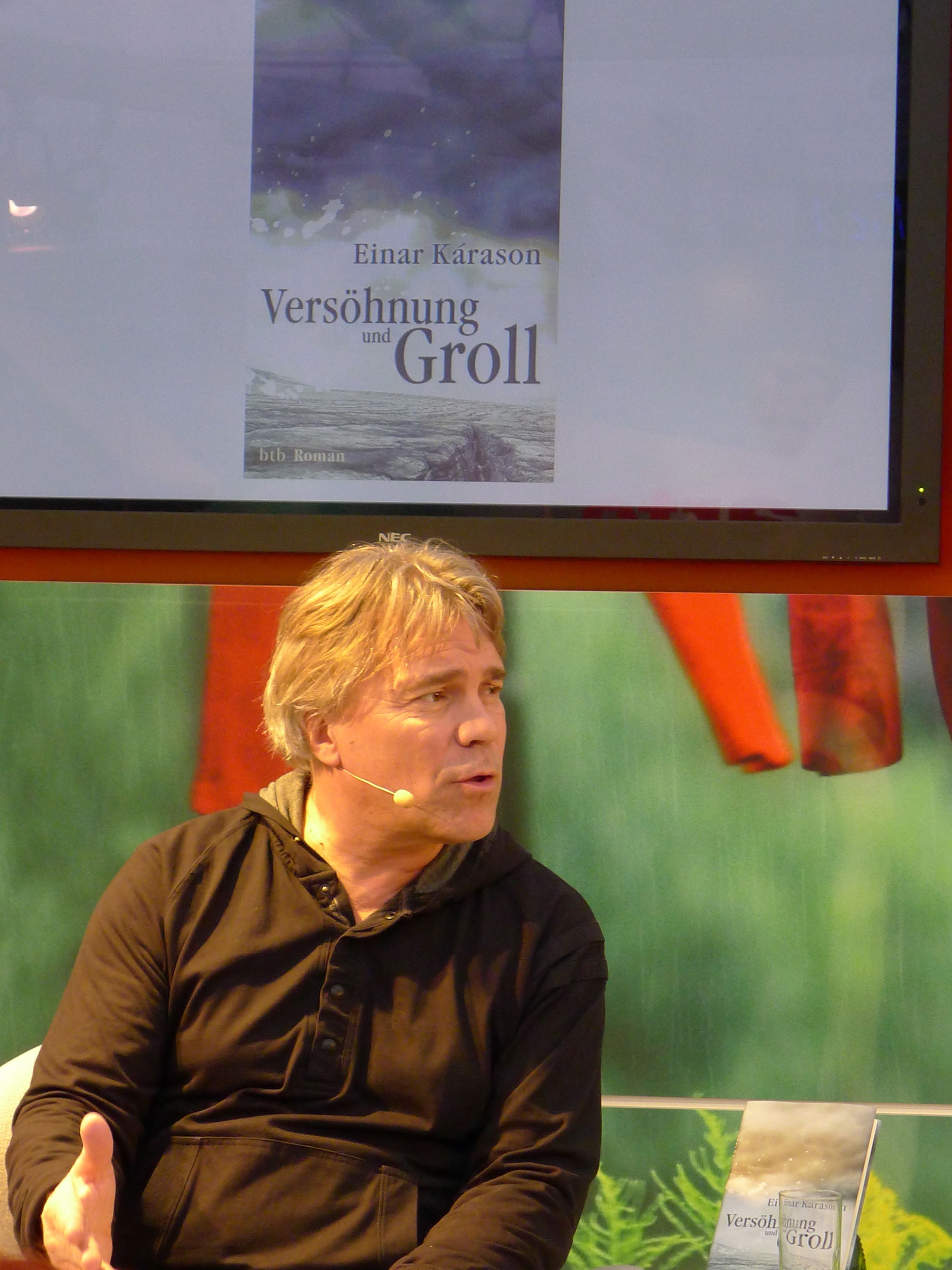 Einar Kárason, Icelandic writer, at the Leipzig Book Fair 2011